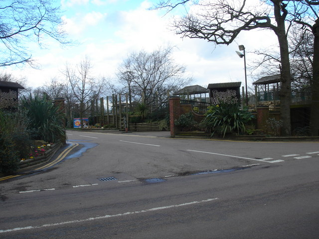 Paradise Wildlife Park Small zoo and adventure park situated in White Stubbs Lane